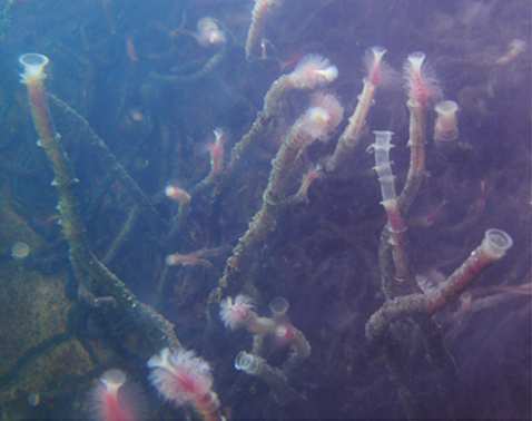 A colony of the vestimentiferan tubeworms Lamellibrachia satsuma in an aquarium.